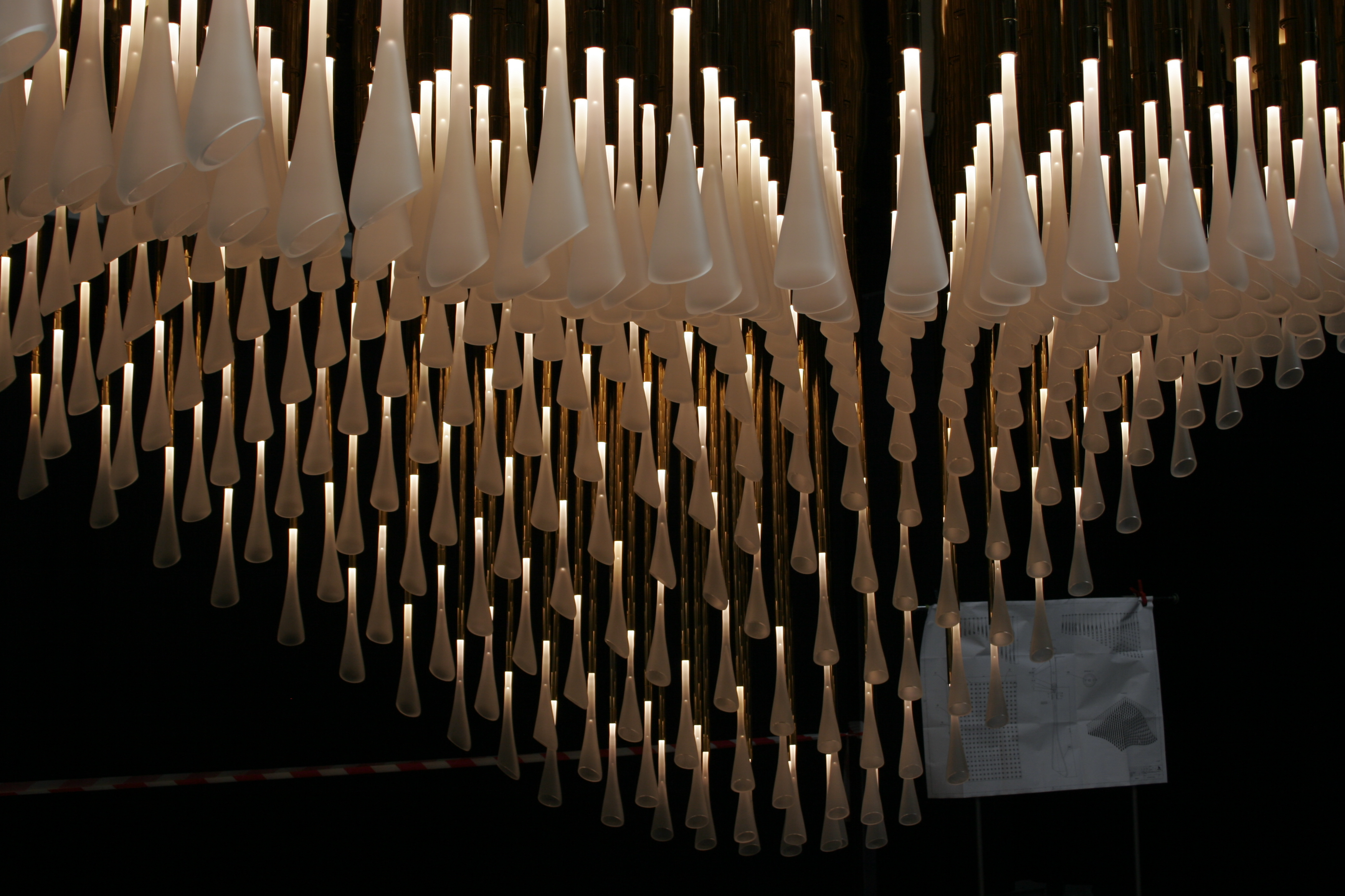 Preciosa glassworks during the International Glass Symposium, Kamenický Šenov, Czech Republic.